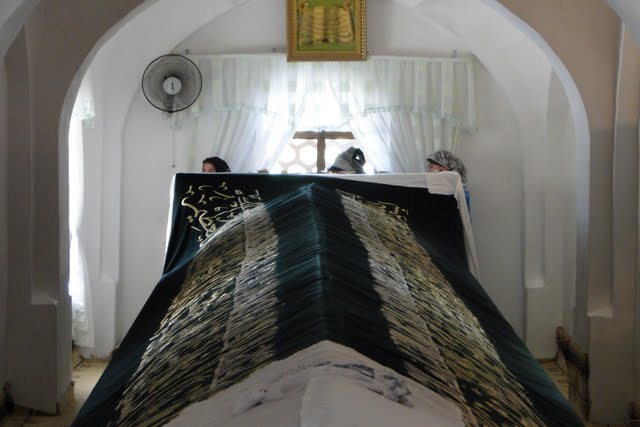 The tomb of protagonist Daniel in Samarkand